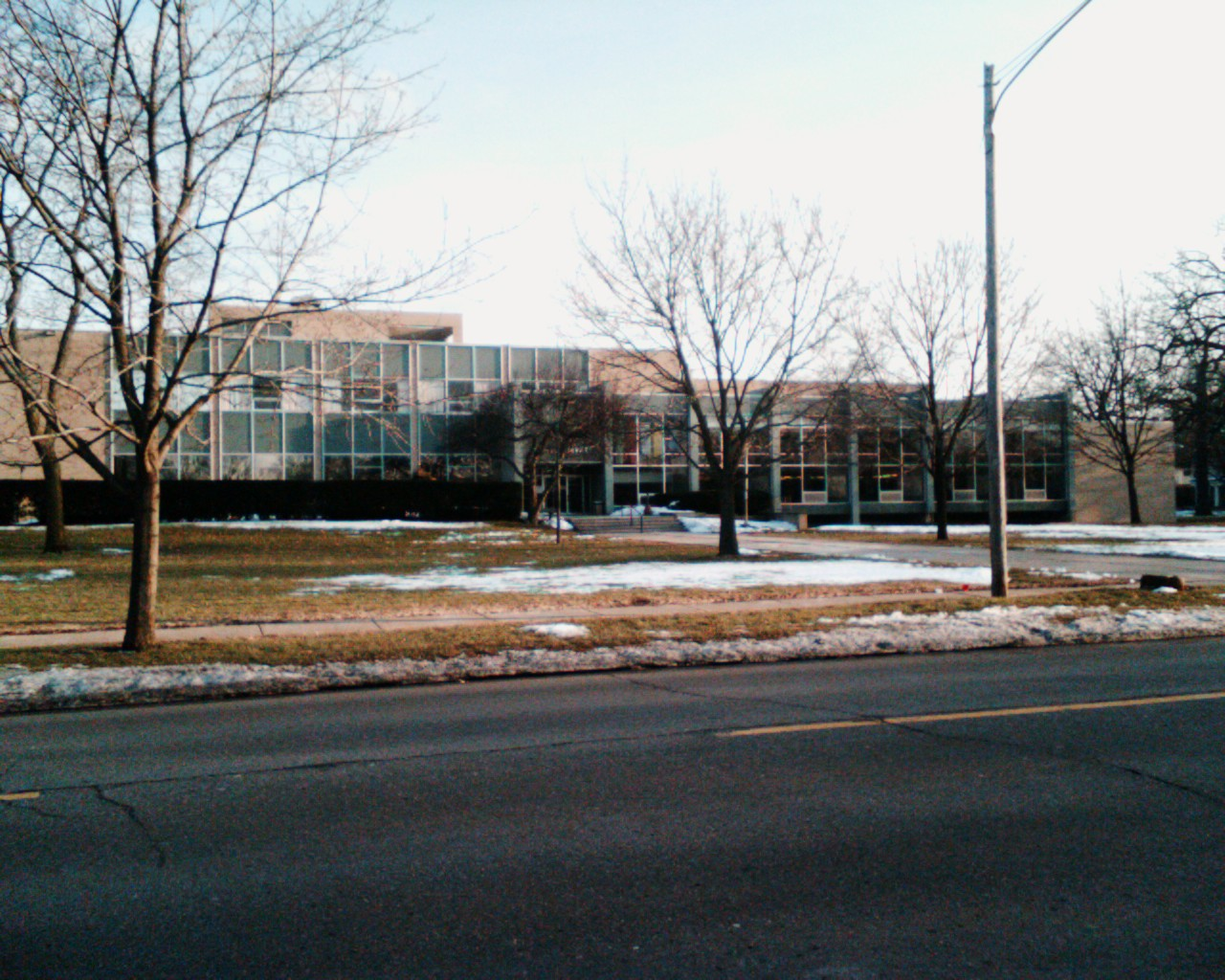 Front of the main branch of the Flint Public Library.